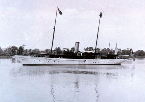 United States Coast and Geodetic Survey survey ship USC&GS Isis in the Potomac River